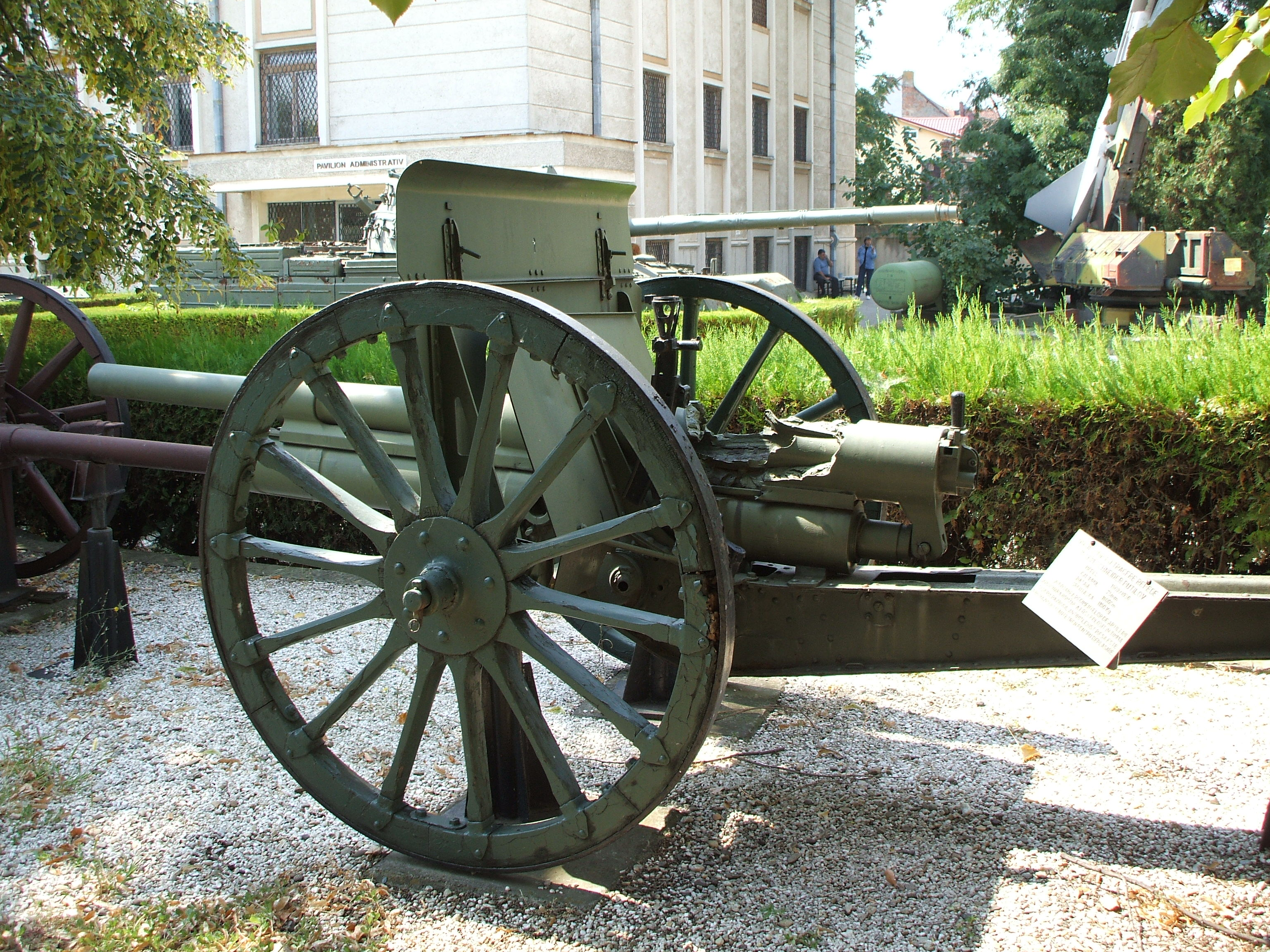 A 75 mm Schneider-Putilov Model 1902/36 FF-KF-RF field gun on display at "King Ferdinand" National Military Museum in Bucharest.